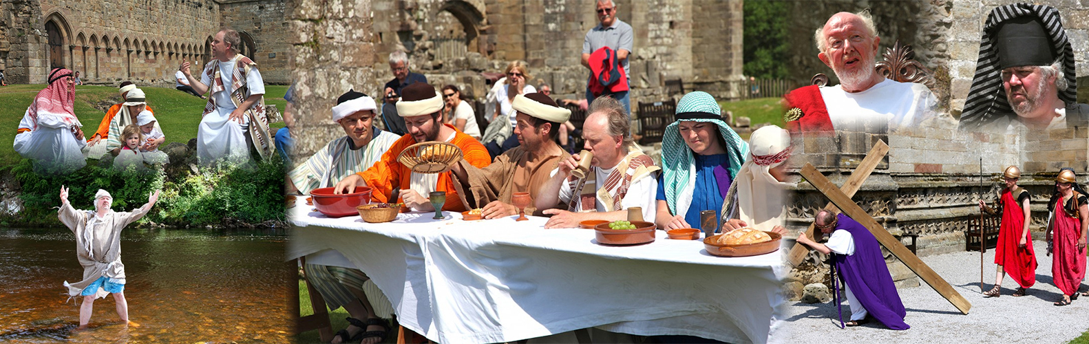 Bolton Priory Mystery Play 2015